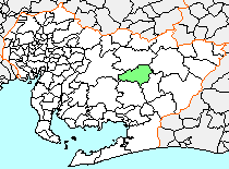 Map of former Shimoyama Village, Aichi, Japan (now part of Toyota city)